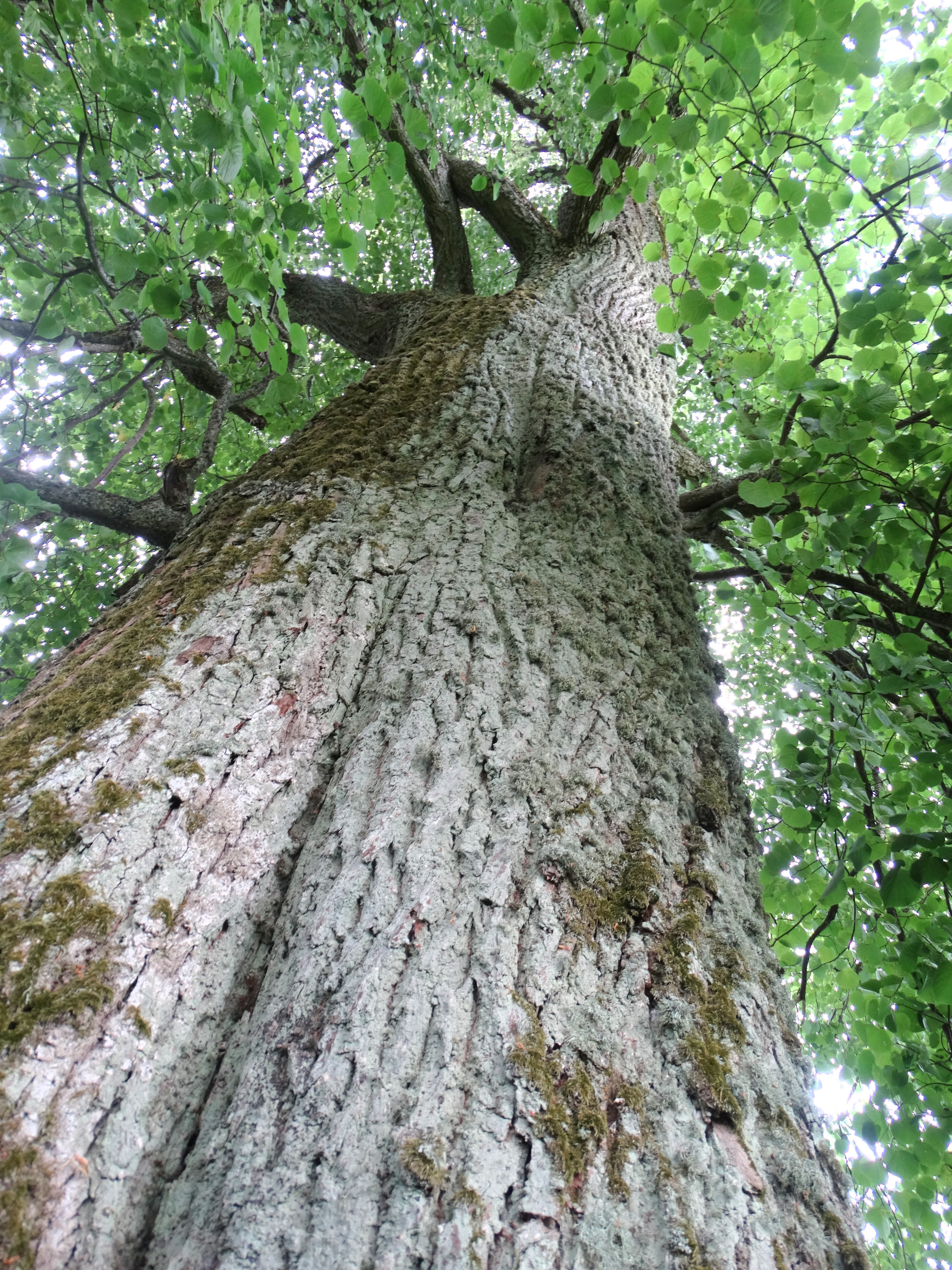 Lime tree (Tilia), Kengiai, Raseiniai district, Lithuania